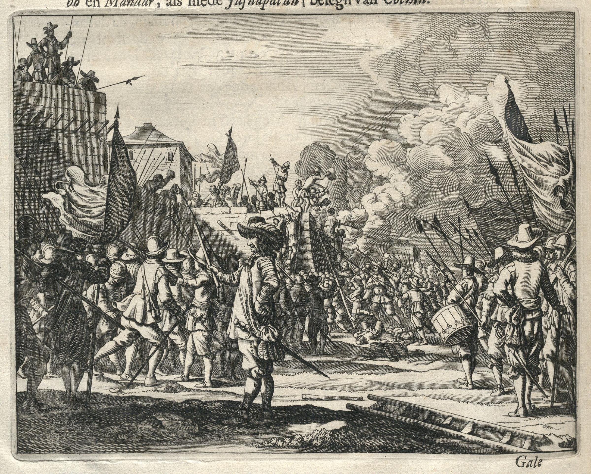 Punto Gale overrun by Willem Jacobsz. Coster The conquest of the city took place on February 9, 1640 at the expense of the Portuguese who had held the city until then.